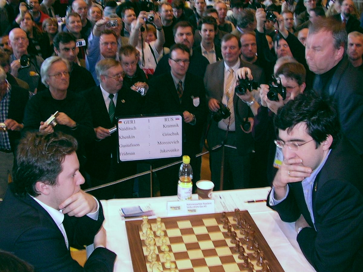 Arkadij Naiditsch - Vladimir Kramnik (surrounded from photographers), Chess Olympiad 2008, Photographer Gerhard Hund.